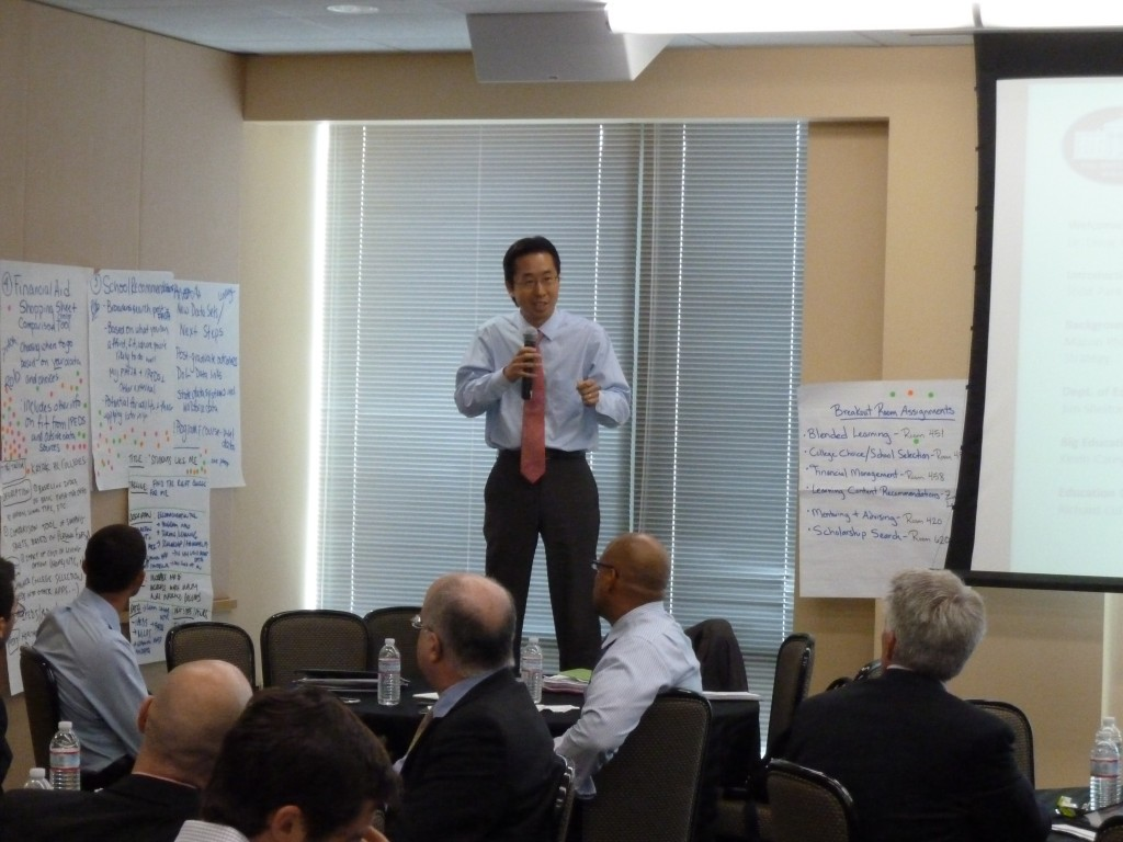 Todd Park, US CTO (standing on a chair) leading the education data jam.